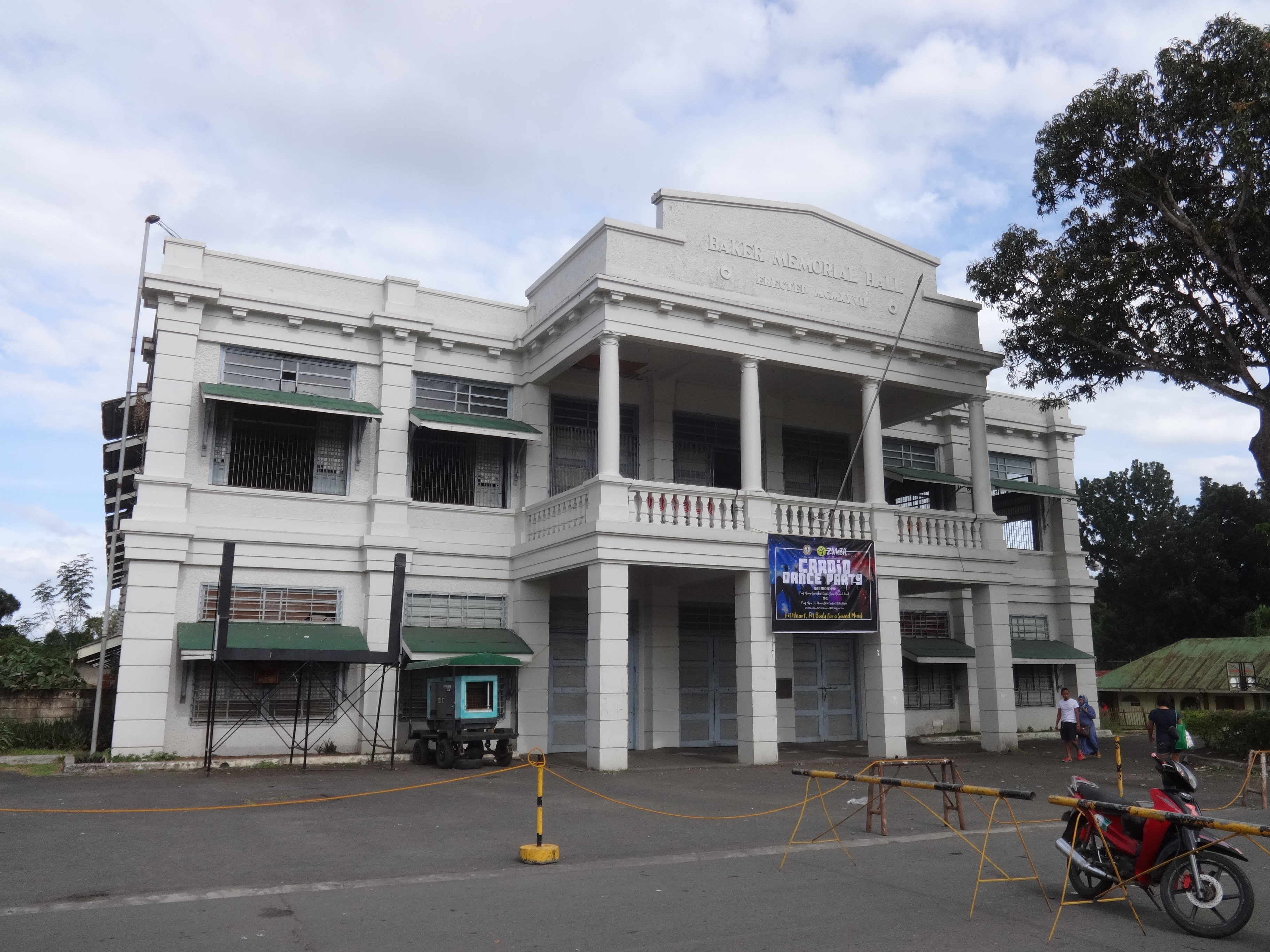 Baker Hall at the University of the Philippines Los Baños (UPLB) campus in Los Baños, Laguna. This building is being used as a sporting facility of UPLB students.